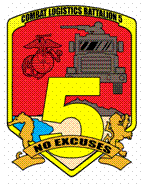 Logo of Combat Logistics Battalion 5